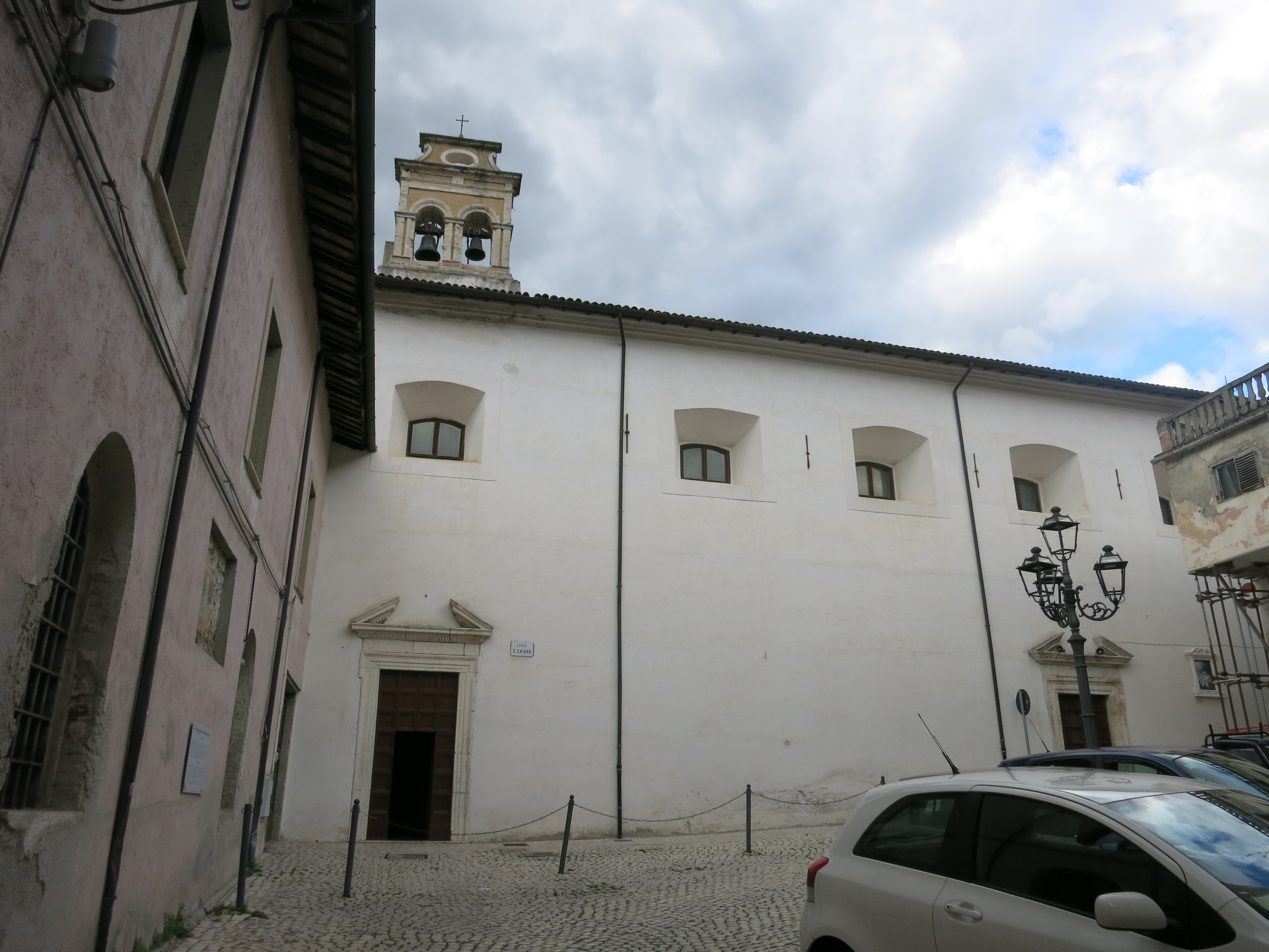 Saint Claire church - Antrodoco (province of Rieti, central Italy)